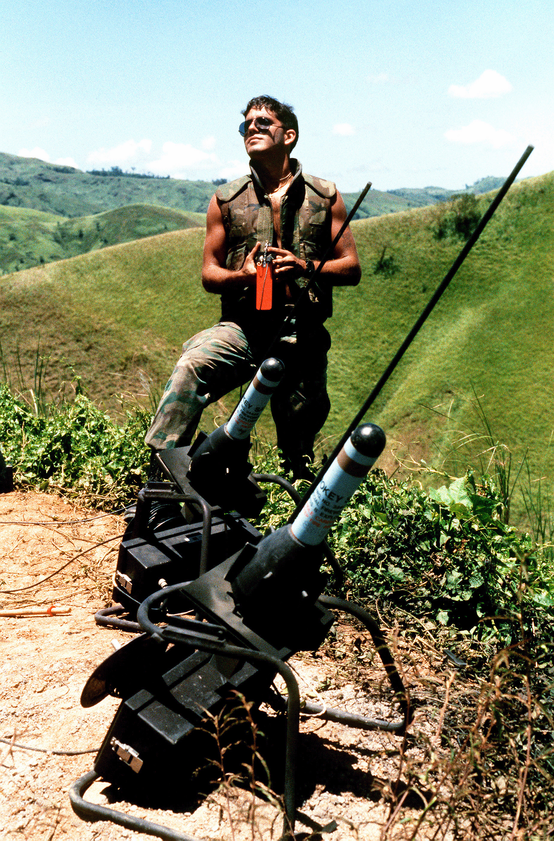 A U.S. Marine prepares to launch GTR-18A Smokey Sam simulated anti-aircraft missile at aircraft approaching the Crow Valley Electronic Warfare Tactical Range, Luzon, Philippines, during exercise "Cope Thunder '84-7" on 10 September 1984.